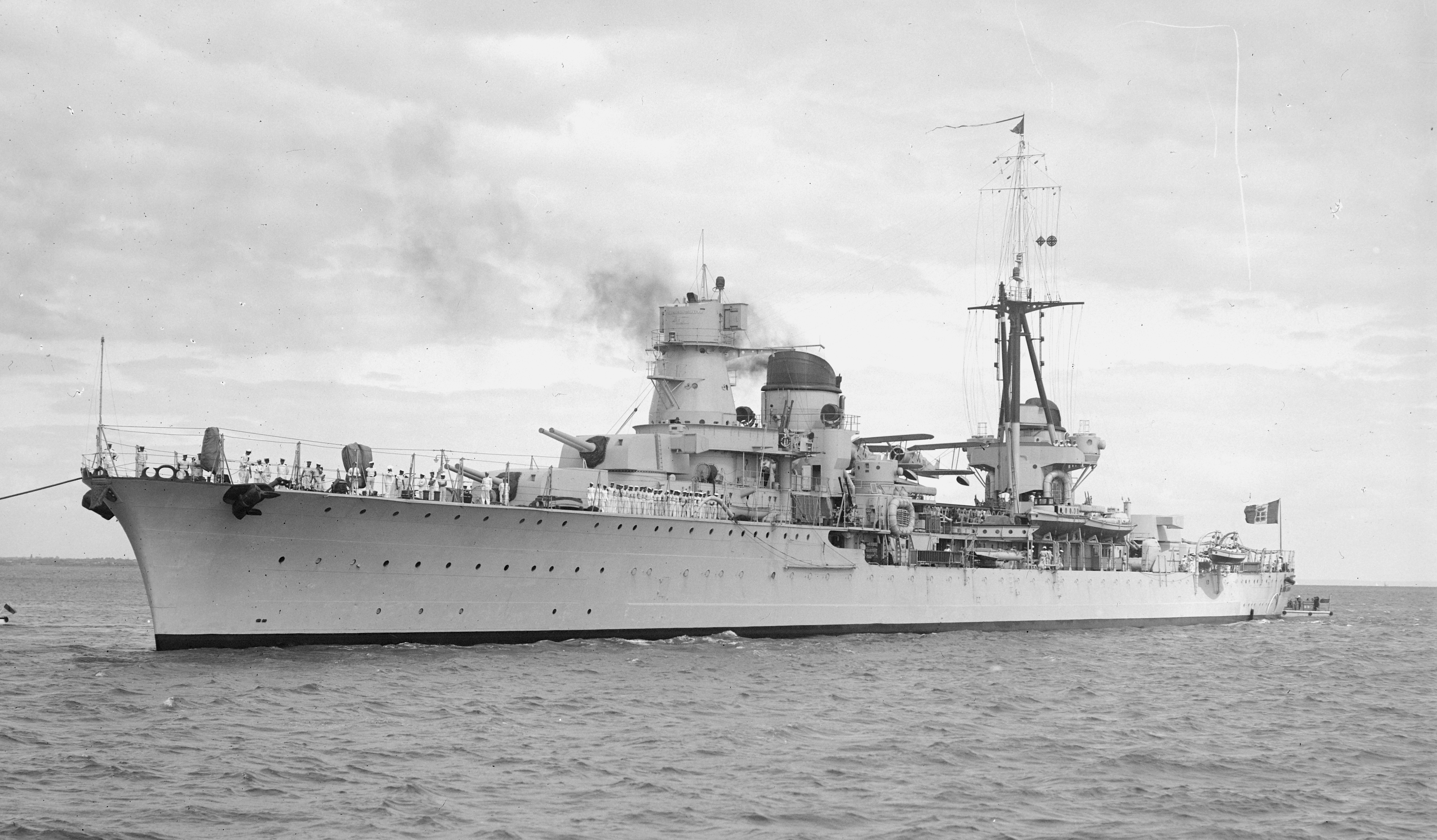 Italian cruiser Raimondo Montecuccoli